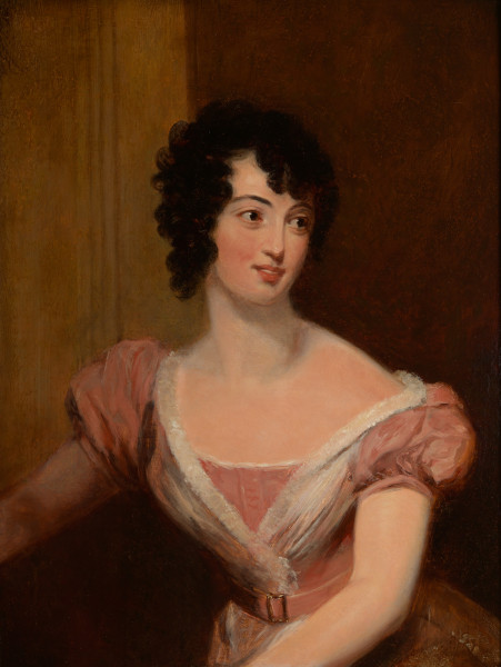 Lucia Elizabeth Vestris by Robert William Buss exhibited in 1833